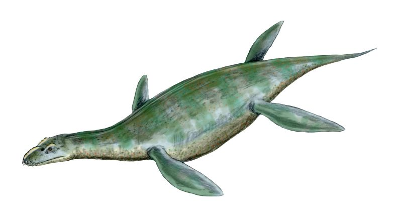 Umoonasaurus demoscyllus, a plesiosaur from the Early Cretaceous of Australia, pencil drawing